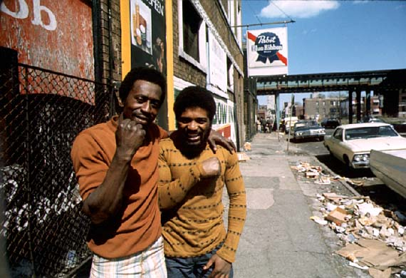 Chicago ghetto on the South Side. May 1974. Photo by John H. White Original caption: "CHICAGO GHETTO ON THE SOUTH SIDE. ALTHOUGH THE PERCENTAGE OF CHICAGO BLACKS MAKING $7,000 OR MORE JUMPED FROM 26 TO 58% BETWEEN 1960 AND 1970, A LARGE PERCENTAGE STILL REMAINED UNEMPLOYED. THE BLACK UNEMPLOYMENT RATE GENERALLY IS ASSUMED TO BE TWICE THAT OF THE NATIONAL UNEMPLOYMENT RATE PUBLISHED MONTHLY BY THE BUREAU OF LABOR STATISTICS, 05/1974"